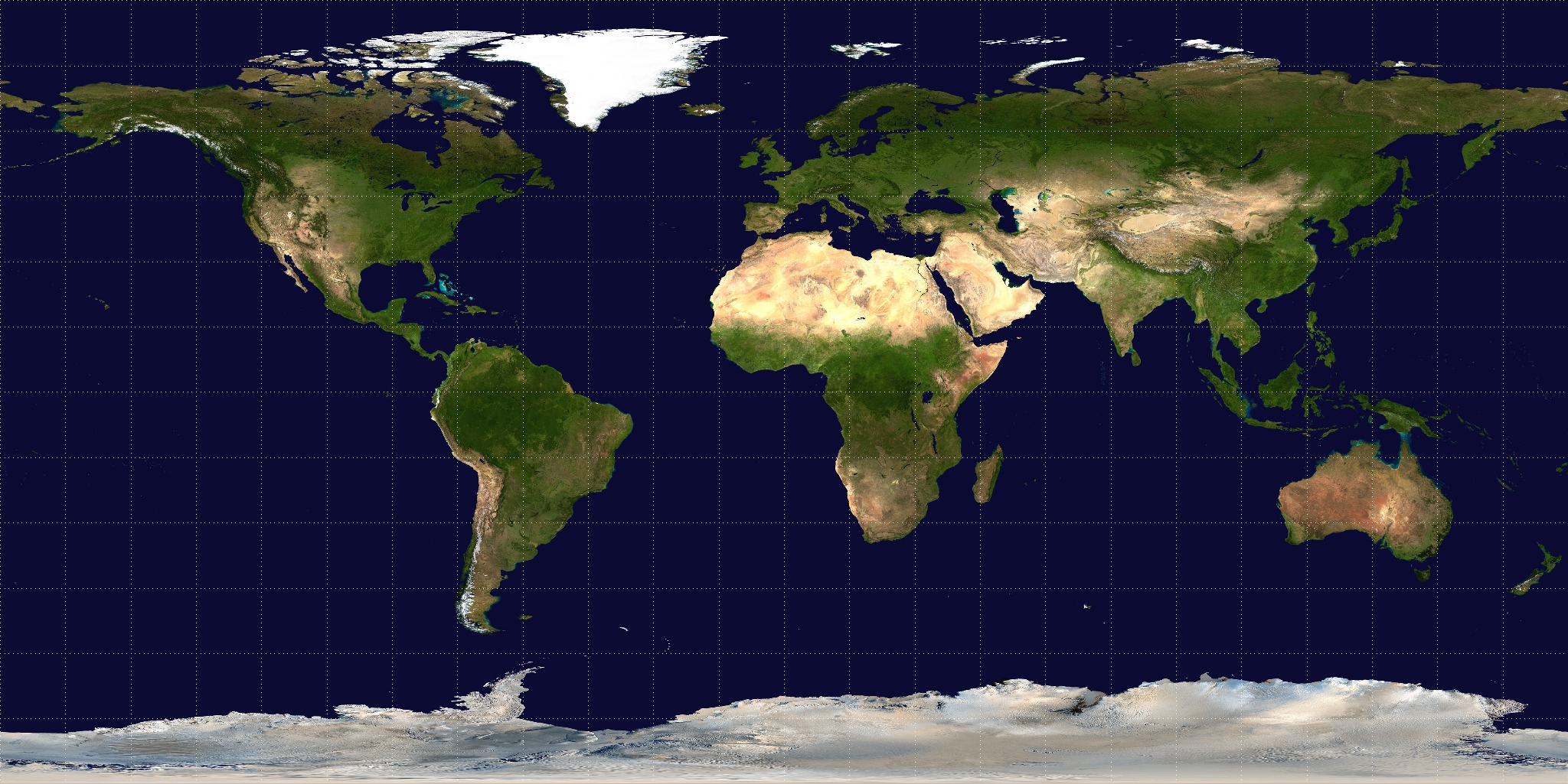 An equirectangular projection, with the equator as the standard parallel, of a Visible Earth image collected by the Earth Observatory experiment of the U.S. Government's NASA space agency. The reticle is 15 degrees in latitude and longitude.